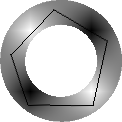 Annulus.circle.bijective-projection